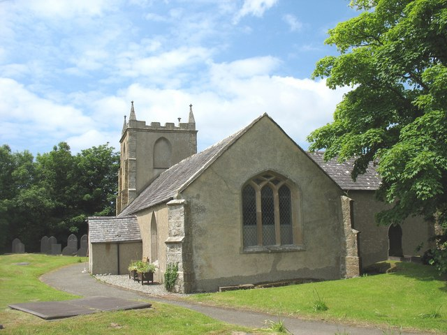 St Ceinwen's Church, Llangeinwen. A church was established on this site by St Ceinwen at the end of the sixth century. The present church building dates back to the middle ages but with nineteenth century additions, including the tower. In the porch is a memorial to the men of this small rural parish who served in the First World War. It contains some 80 names. Eleven of these men perished. 850336